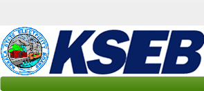 Logo of Kerala State Electricity Board (KSEB)